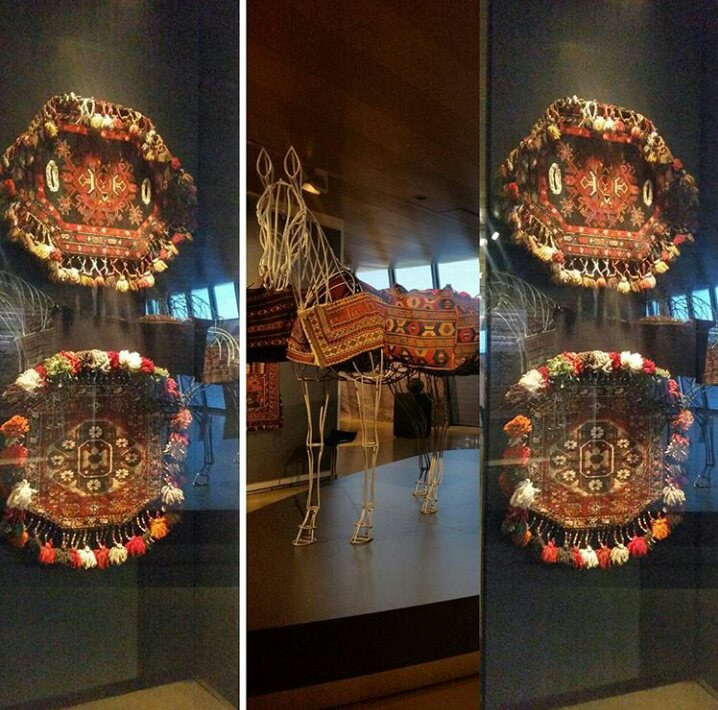 Xalça